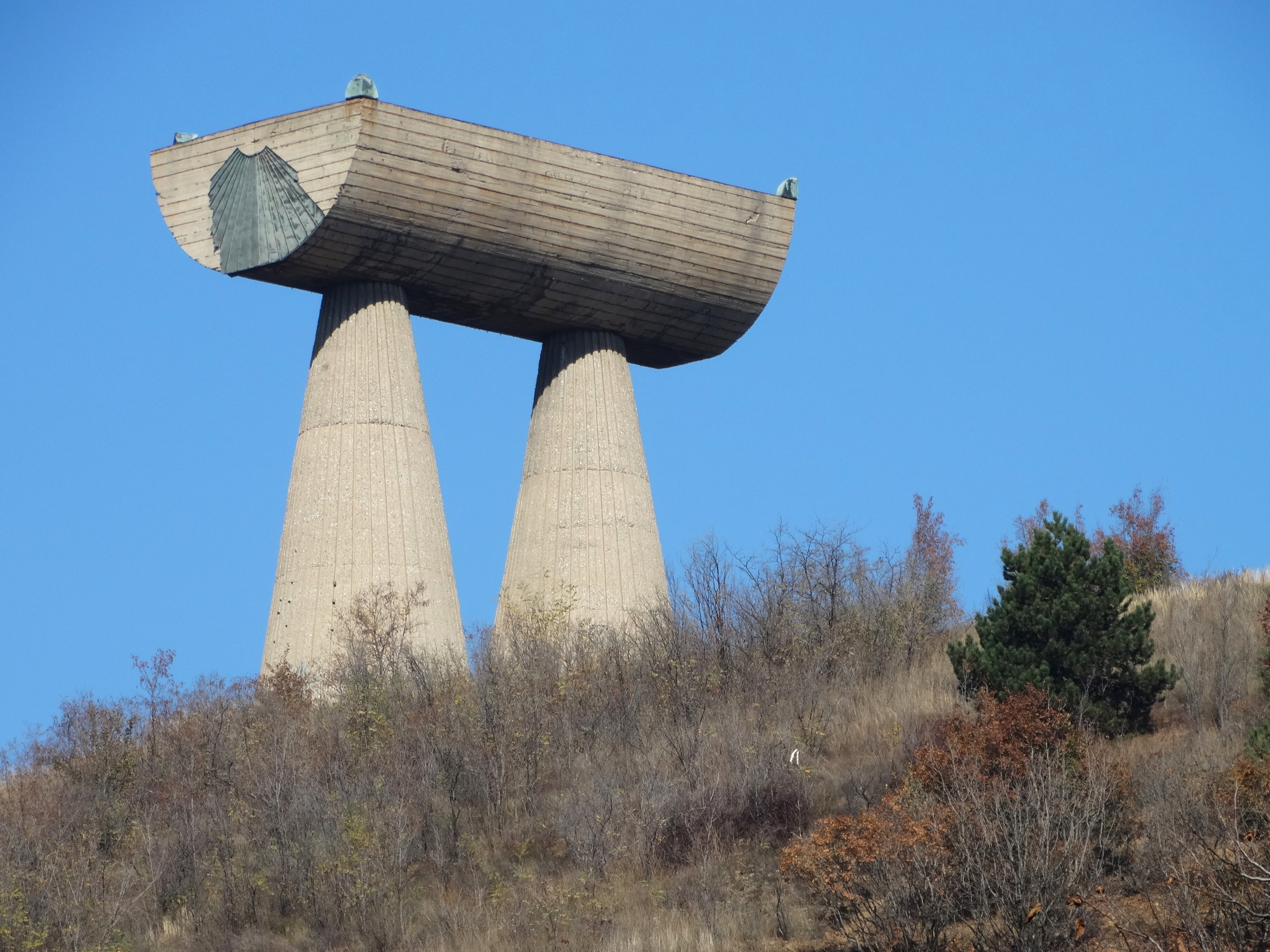 World War Two Memorial - Mitrovica (Serb Side) - Kosovo